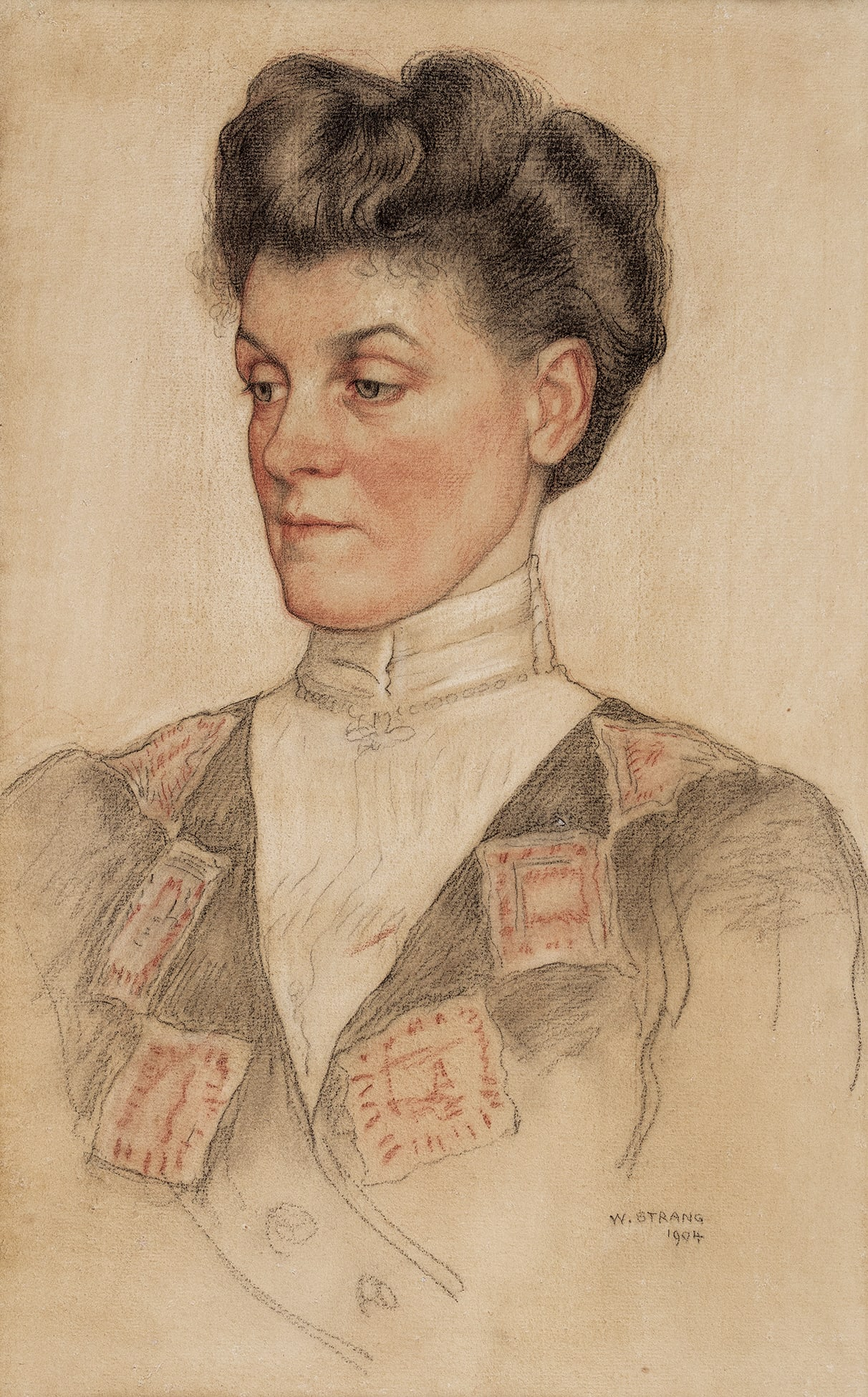 Three coloured chalks on tinted paper. Signed and dated, 1904. 10x15 inches. Offered for sale by Abbott and Holder in October 2019: ref: Strang-08265